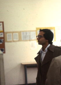 Algerian writer Tahar Djaout in an exhibition of literature (1980).